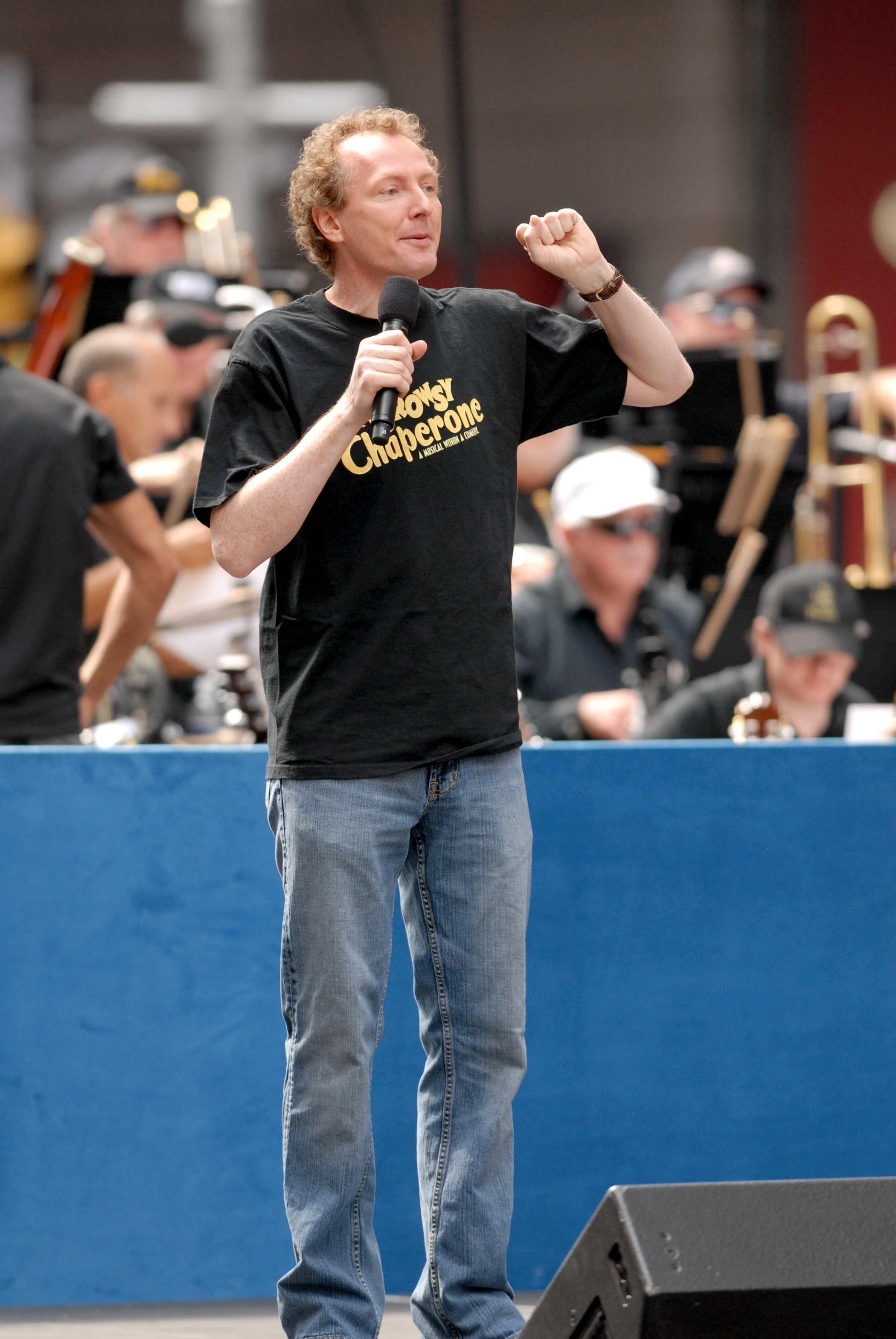 The Drowsy Chaperone cast members Bob Martin and Beth Leavel perform "As We Stumble Along" at Broadway on Broadway, September 10th 2006.